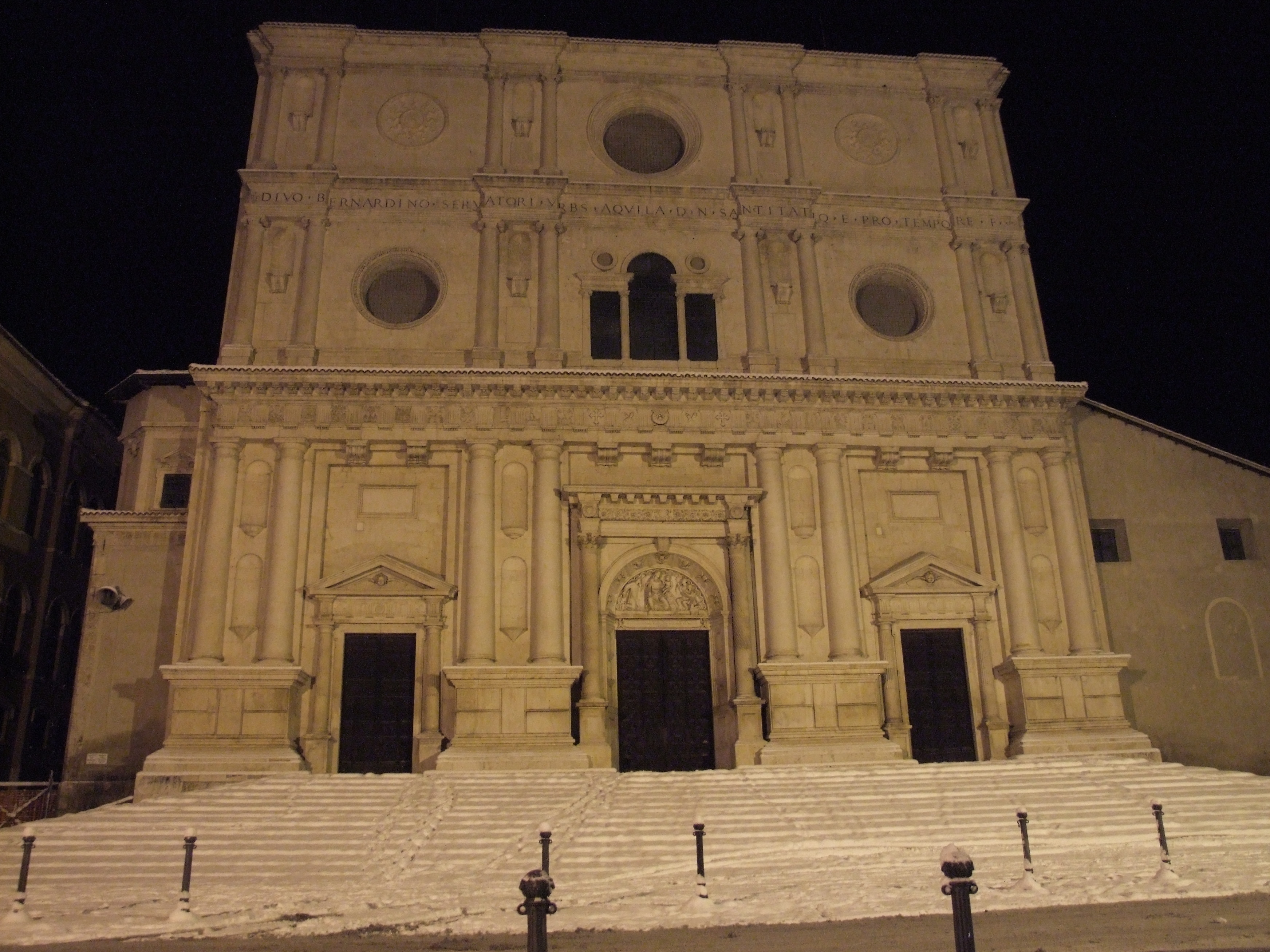 The church of San Bernardino da Siena in L'Aquila, at night, under the snow.